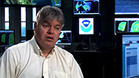 Small shot of Louis Wicker, atmospheric scientists at the National Severe Storms Laboratory (NSSL), doing an interview.